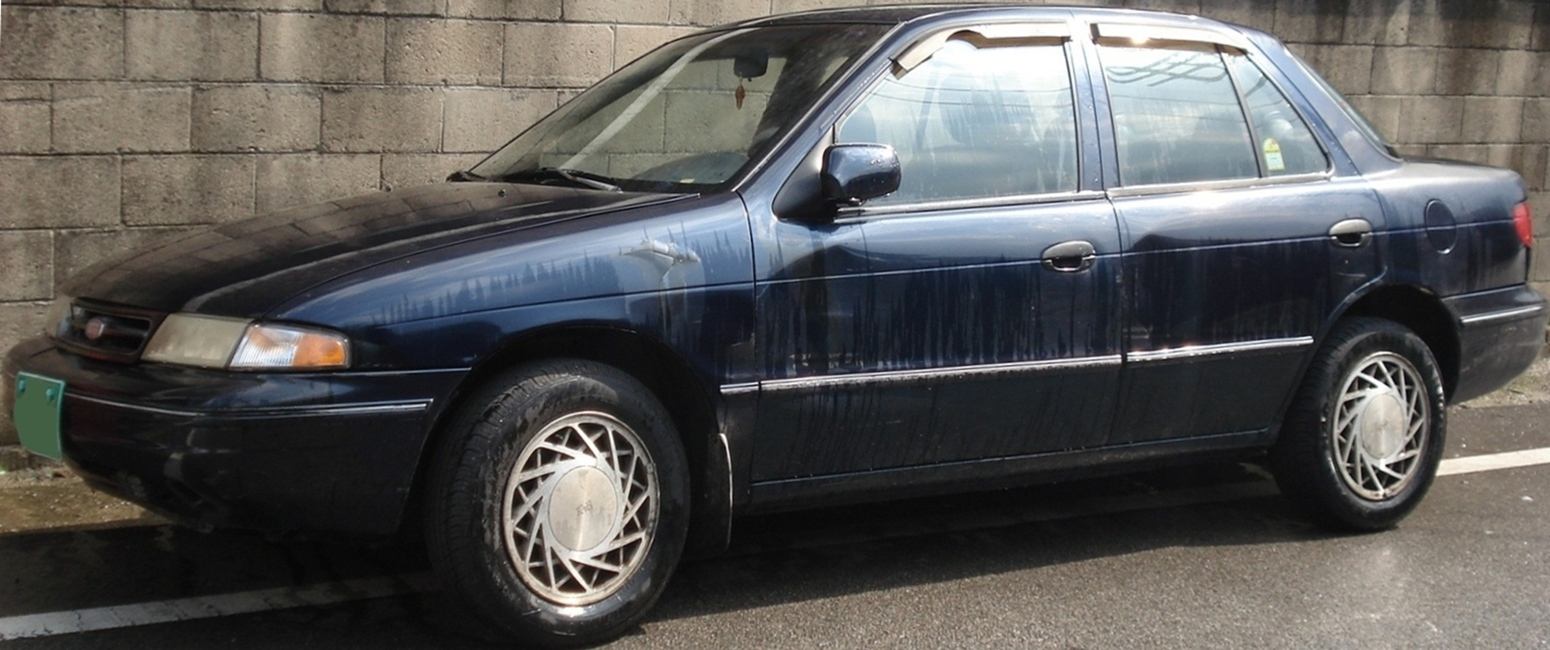 Kia Sephia